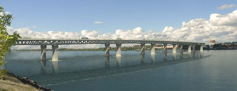 Columbia River Crossing concept drawing of "deck truss" bridge 25 February 2011